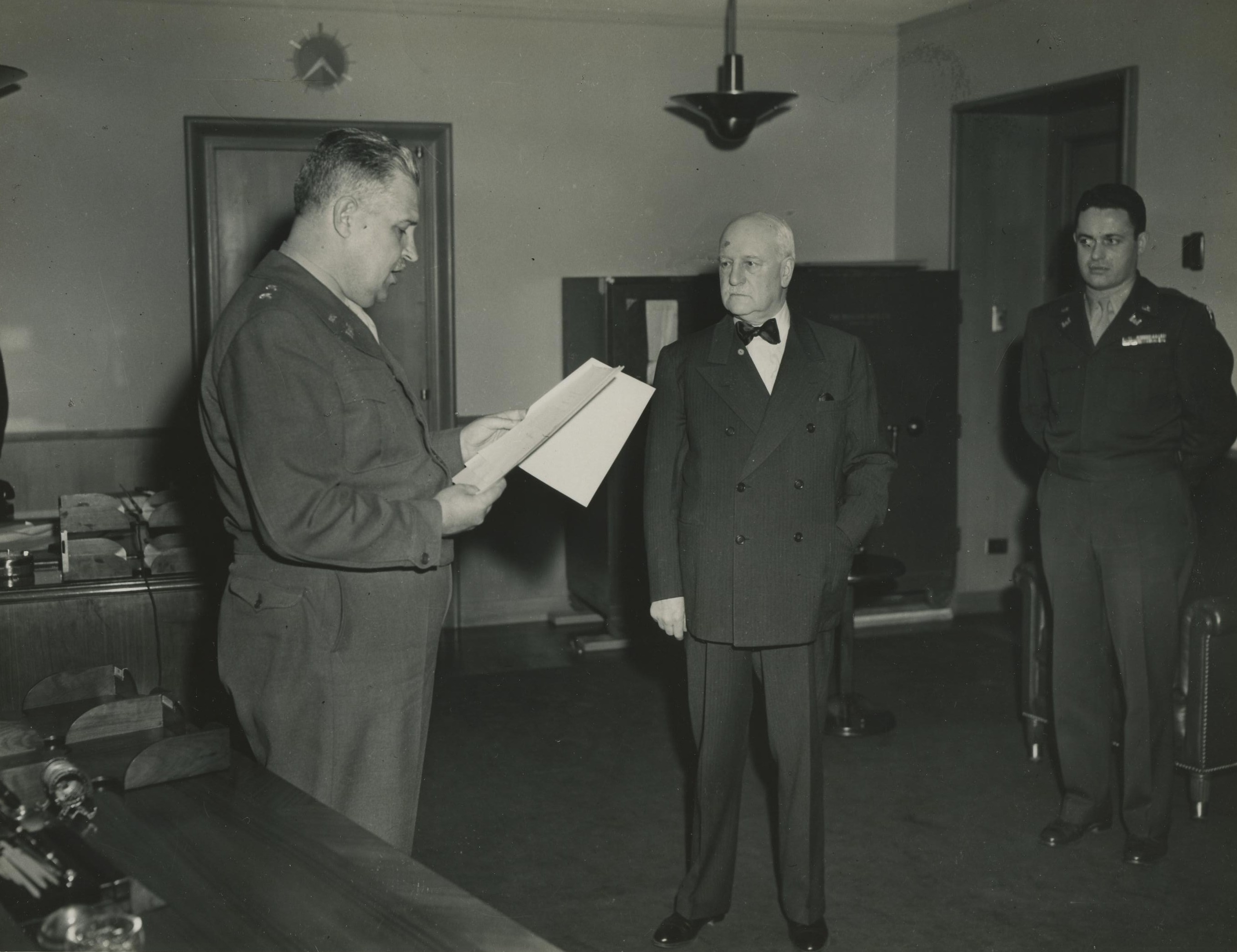 Edgar Sengier listening to General Leslie Groves read the Medal of Merit citation for his contribution to the allied war effort.